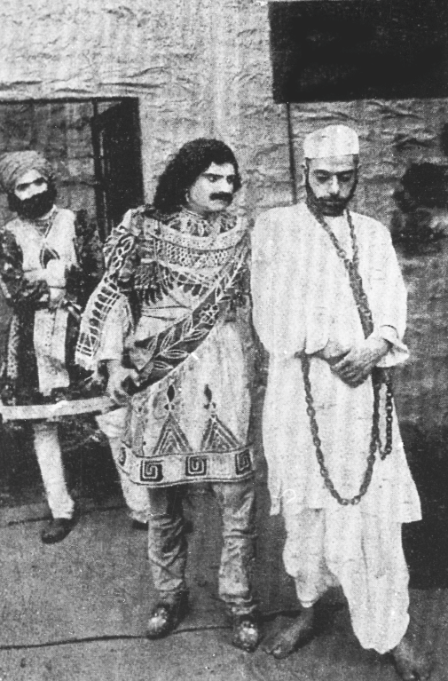 Dwarakadas Sampat in Mahatma Gandli-like garb as Vidur in the first Indian film to be banned, still from 'Bhakta Vidur' 1921 (“Devotion of Vidur”), Dir: Kanjibhai Rathod. Studio: Kohinoor Film Co. One of 21 most wanted missing Indian cinema treasures identified by National Film Archive of India founder P K. Nair. This image is issued under a Creative Commons Attribution license. It was obtained from the NFAI's archive collection in May 2014 and is reproduced and placed in the public domain by agreement with the NFAI under a legal waiver. If you have any posters, lobby cards, song books, photographs or film prints from the last century of Indian cinema, you can donate them to the NFAI.